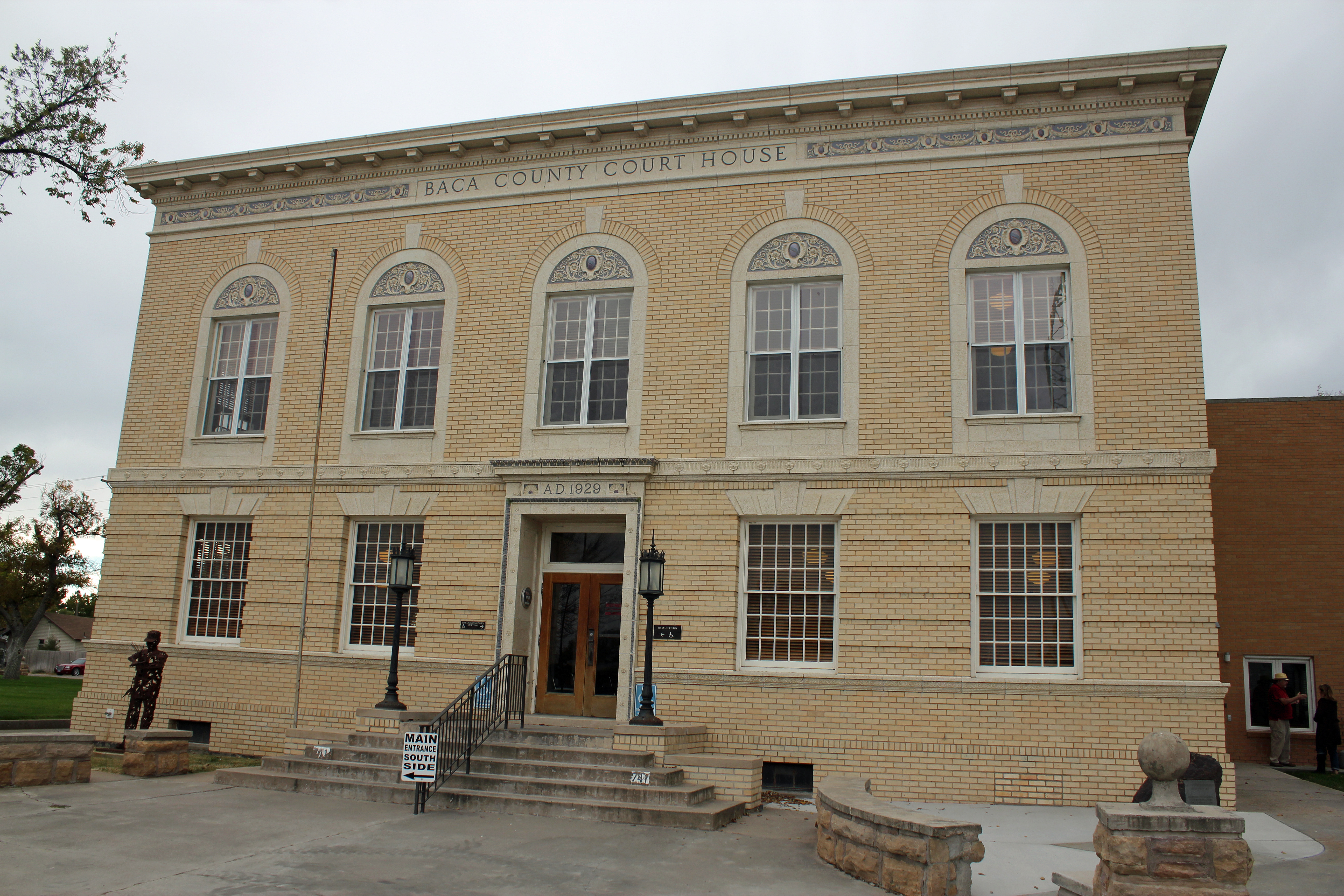 The Baca County Courthouse, located at 741 Main Street in Springfield, Colorado.